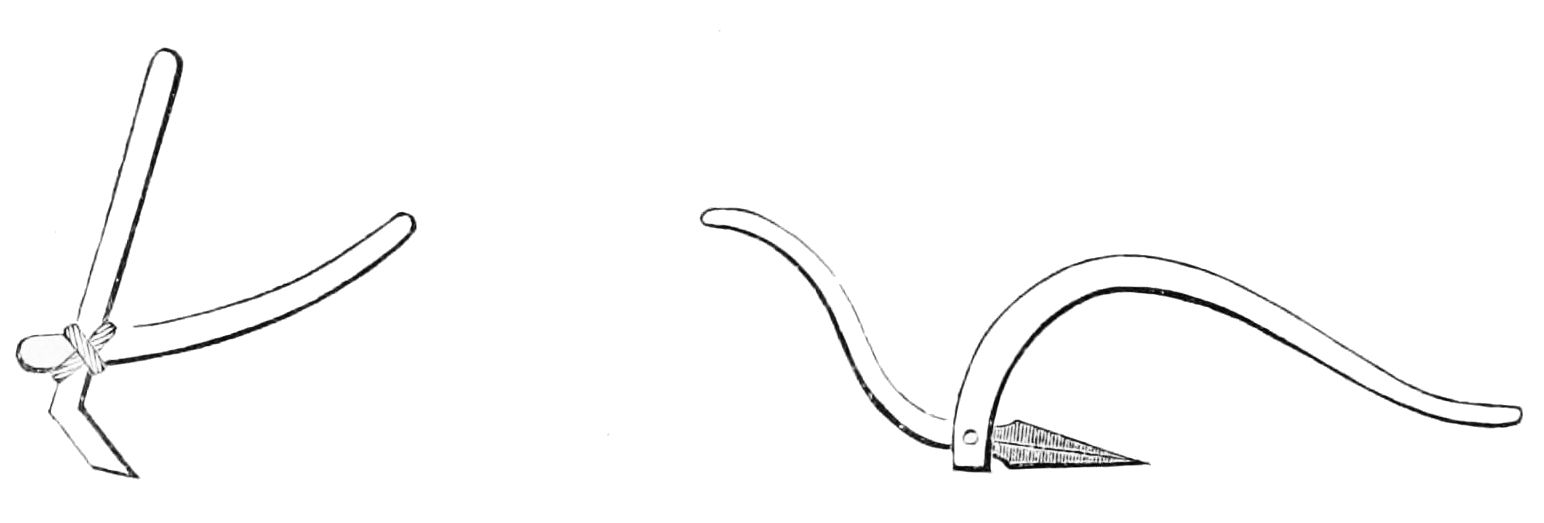 Ploughs from the Roman empire